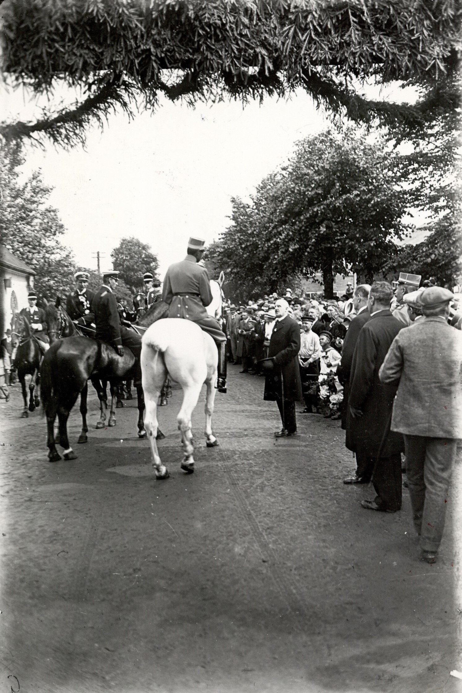 Christian X and the two princes ride into Sønderjylland